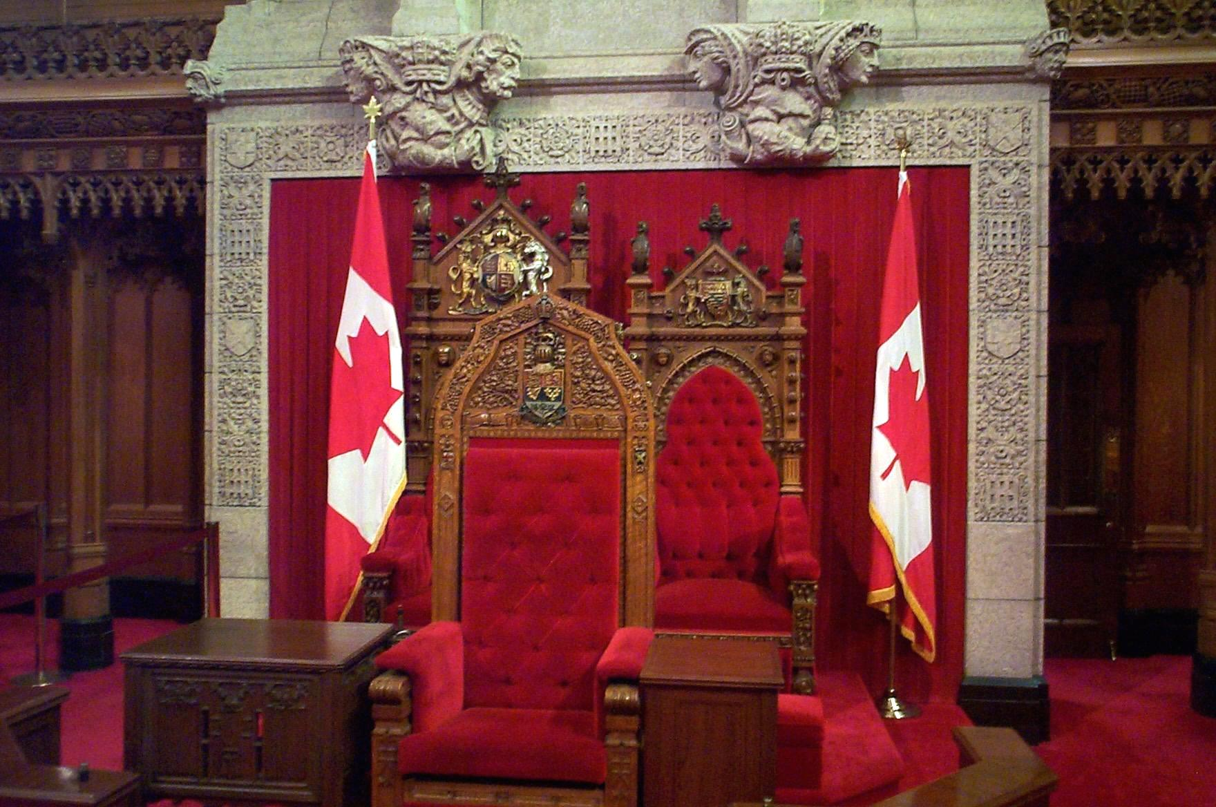 The thrones for Elizabeth II as Queen of Canada, and the Duke of Edinburgh (back) in the Canadian Senate, Ottawa (CAN). They are usually occupied by the Governor General and his/her spouse at the Opening of Parliament. The chair in the foreground is for the speaker of the senate.